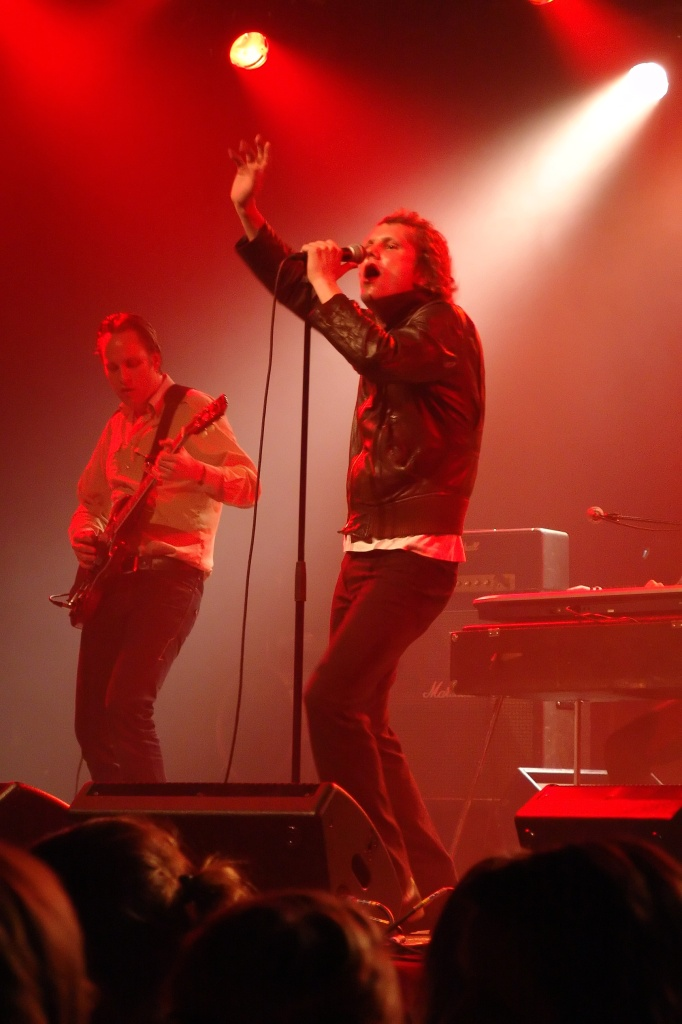 Norwegian rock band King Midas playing at Teatergarasjen, Bergen, Norway, on 5th of May 2005. Author: eckligt